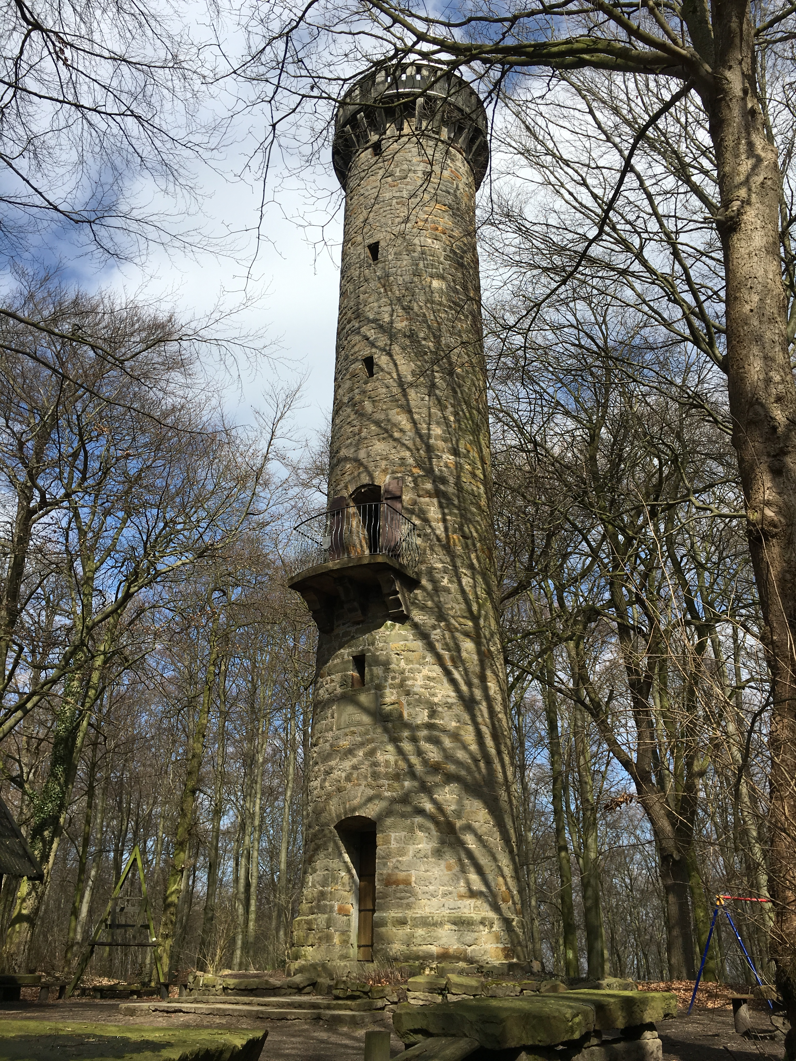 Wilhelmsturm in Wölpinghausen, Lower Saxony, Germany